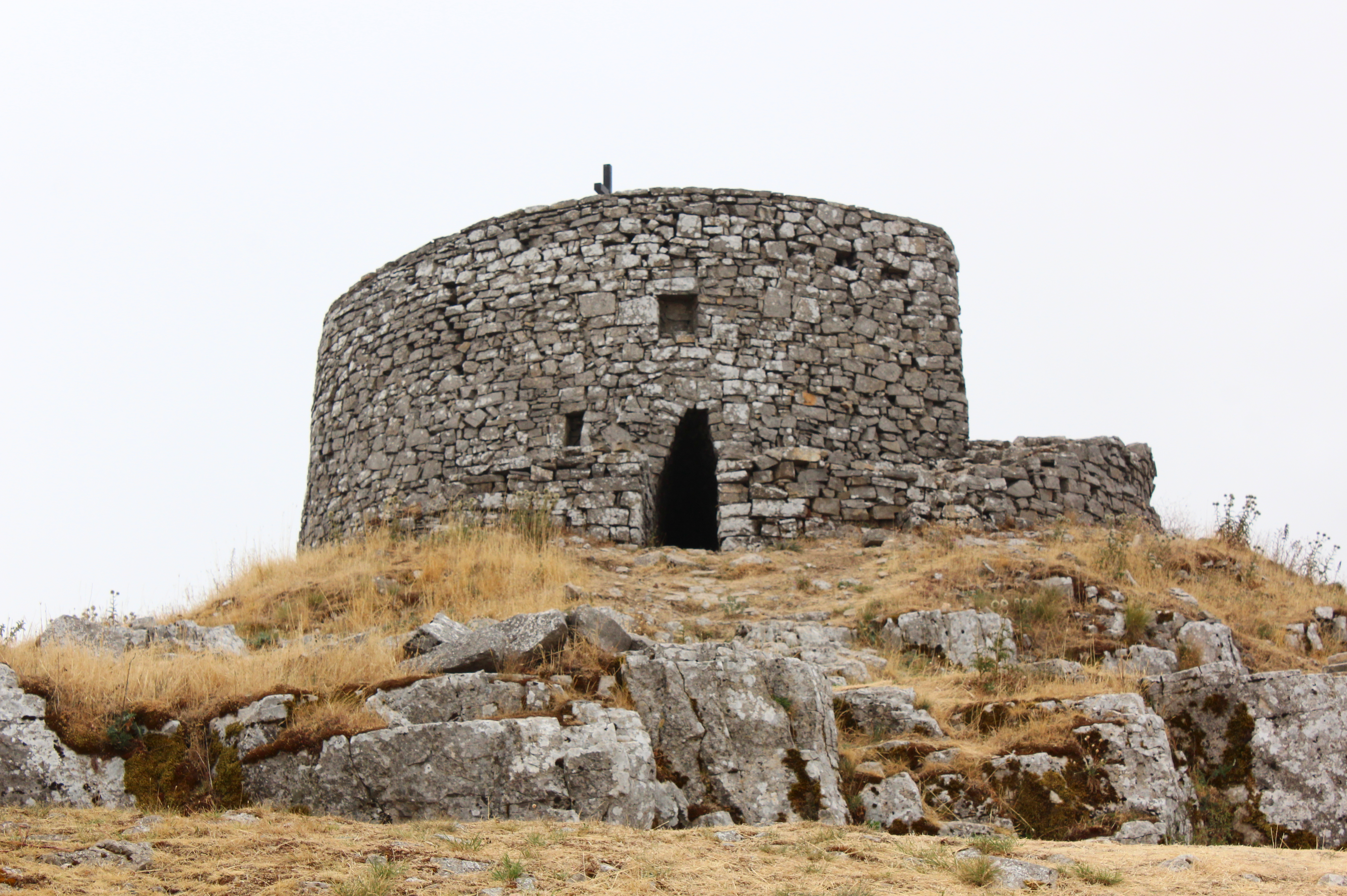 remains of the ruin of the tower Torre Giurisdavidica, on top of Monte Labbro (1193m), Arcidosso, Province of Grosseto, Tuscany, Italy